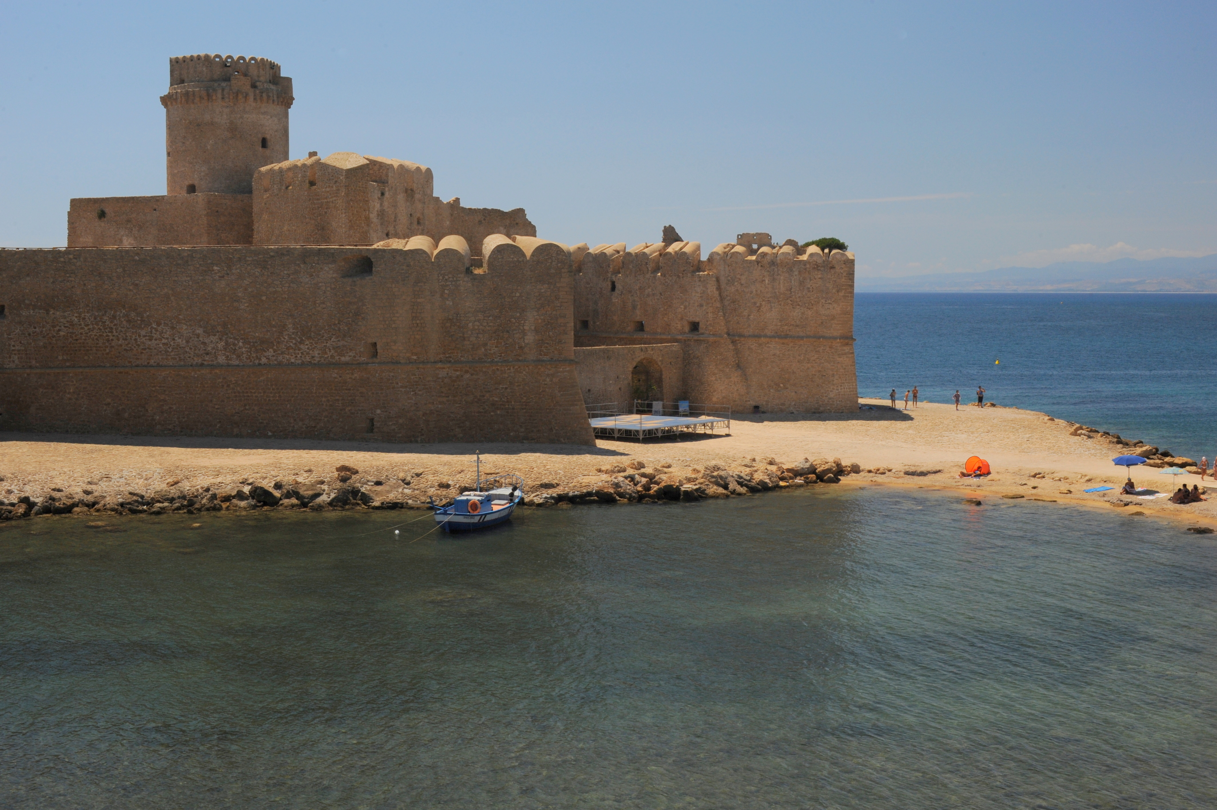 La Castella, Region of Crotone, Calabria, Italy.